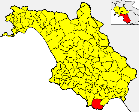 Locator map of the municipality of Camerota (red) within the Province of Salerno